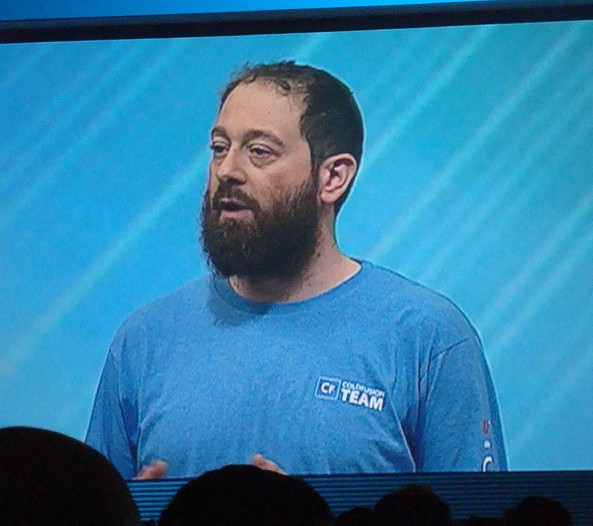 Ben Forta giving his keynote address on the first day of Adobe MAX 2007; cropped from original source